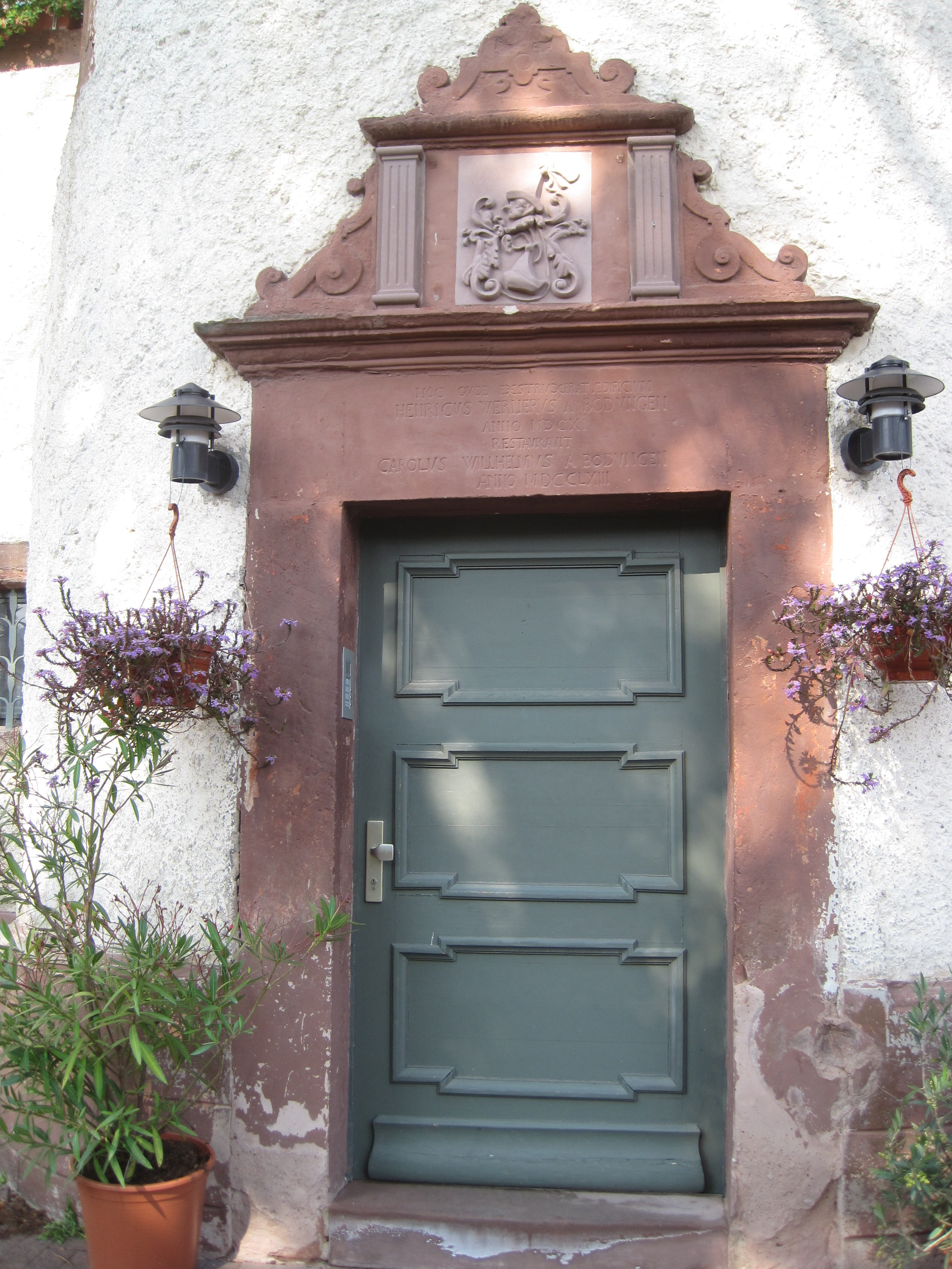 Portal of Martinfeld Castle in Martinfeld (Eichsfeld) built 1611 with Bodungen family CoA in brick: Hoc qvid ebestrvbeerat ædeficicium Henricvs Wernervs A Bodvngen Anno MDCXI Restavravit Carolvs Willhelmvs A. Bodvngen Anno MDCCLXIII